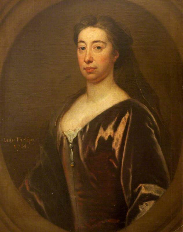 Portrait of Edith Blake